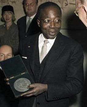 Title: Frankfurt/Main, Staatspräsident von Senegal People in the image: Senghor, Léopold Sédar: Staatspräsident, Dichter, Senegal Factual corrections and alternative descriptions are encouraged separately from the original description. Additionally errors can be reported at this page to inform the Bundesarchiv. Original historic description: Staatspräsident von Senegal Senghor Besuch in Frankfurt am Main